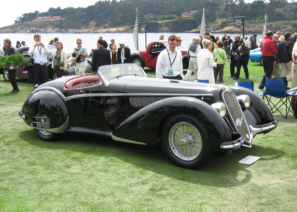 1937 Alfa Romeo 8C 2900B Touring Spider(sligly cropped from original)